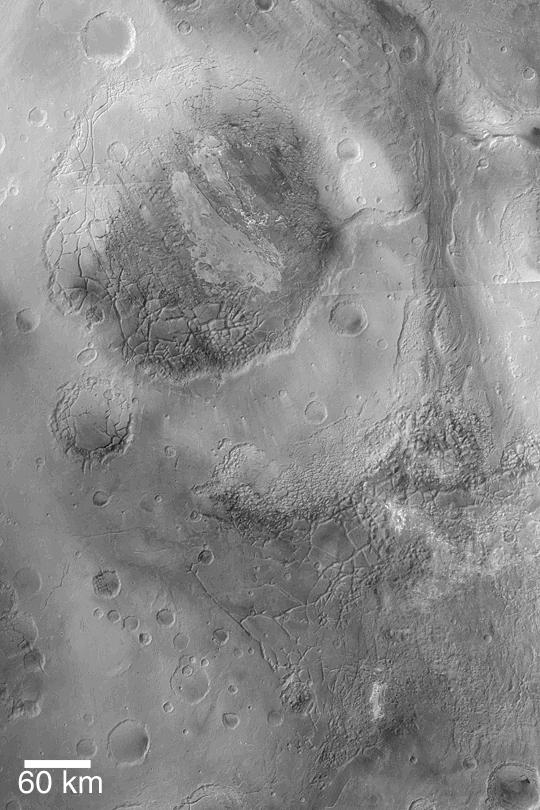 This Mars Global Surveyor (MGS) Mars Orbiter Camera (MOC) image mosaic was constructed from data acquired by the MOC red wide angle camera. The large, circular feature in the upper left is Aram Chaos, an ancient impact crater filled with layered sedimentary rock that was later disrupted and eroded to form a blocky, "chaotic" appearance. To the southeast of Aram Chaos, in the lower right of this picture, is Iani Chaos. The light-toned patches amid the large blocks of Iani Chaos are known from higher-resolution MOC images to be layered, sedimentary rock outcrops. The picture center is near 0.5°N, 20°W. Sunlight illuminates the scene from the left/upper left.